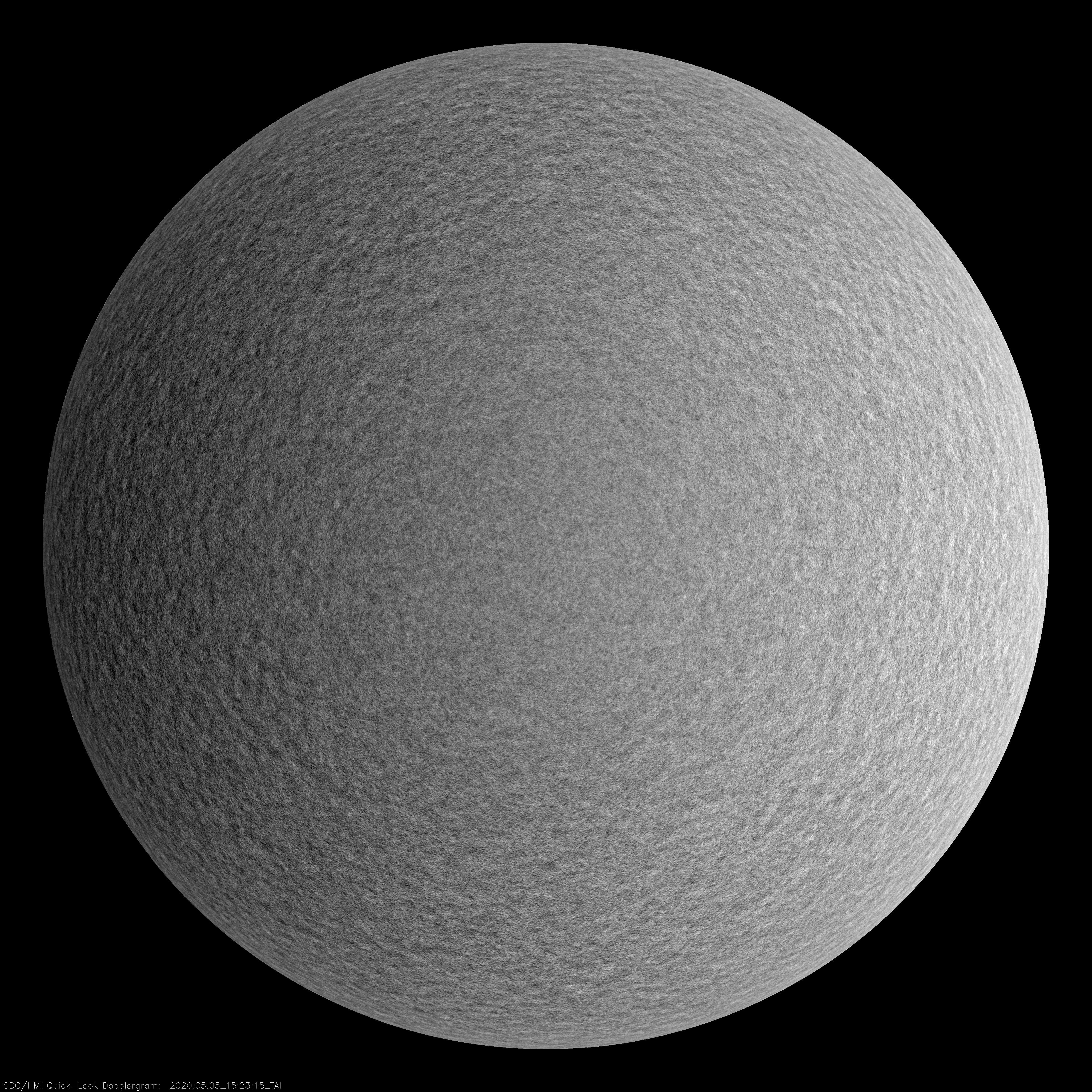 Sun's dopplergram as pictured by the SDO. Grays shades on the picture are associated with various speeds. Light areas are getting farther while dark ones are getting closer.